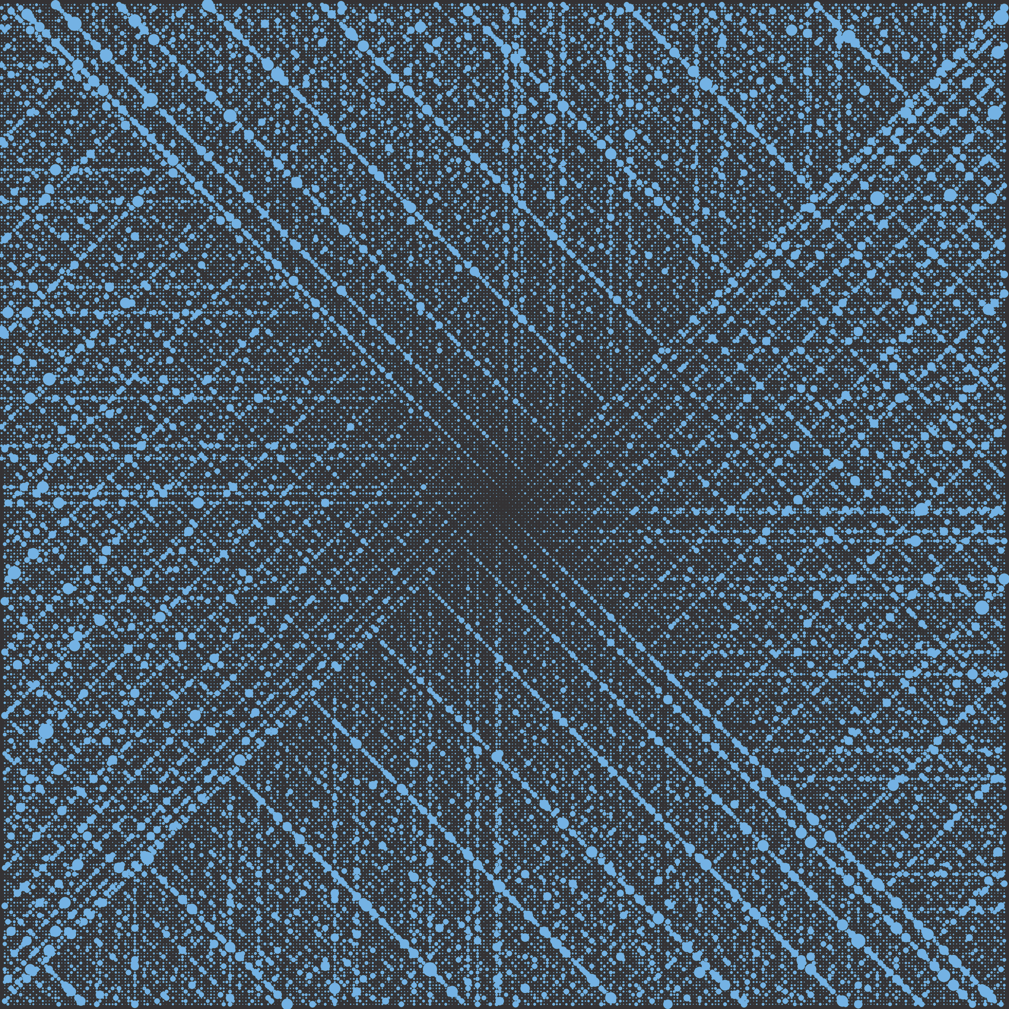 Number of divisors of the first 100,000 natural numbers in the form of Ulam spiral.